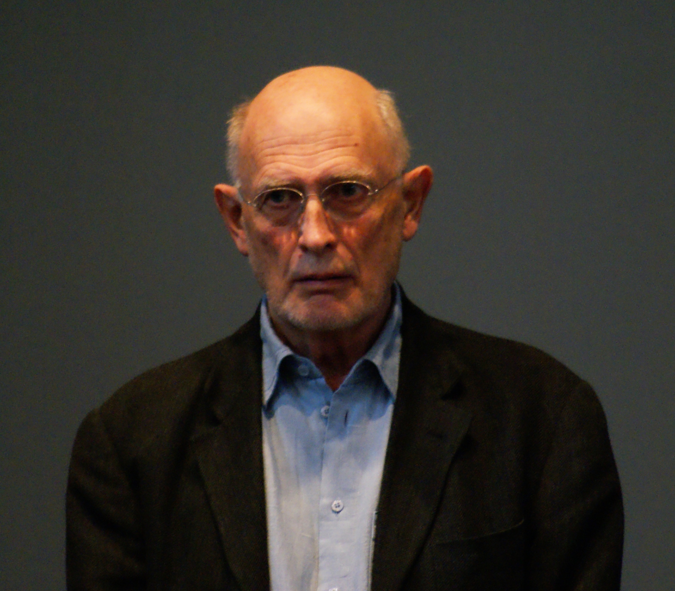 PC Jersild, Swedish writer